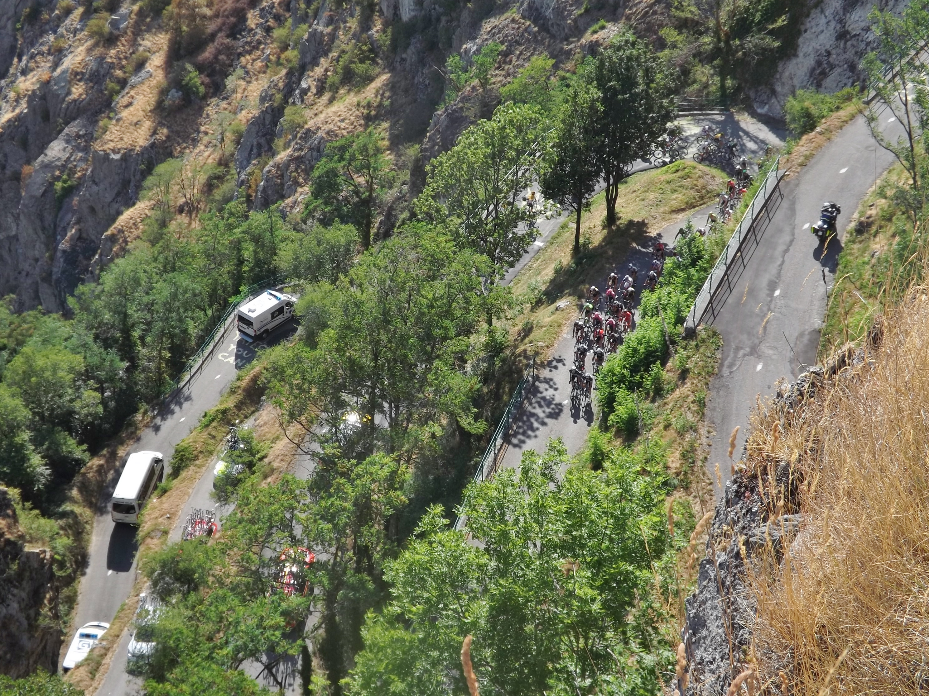 Sight of the Tour de France 2015 cyclist peloton climbing the 18 lacets de Montvernier road bends, in the Maurienne valley (Savoie) during the 18th stage.